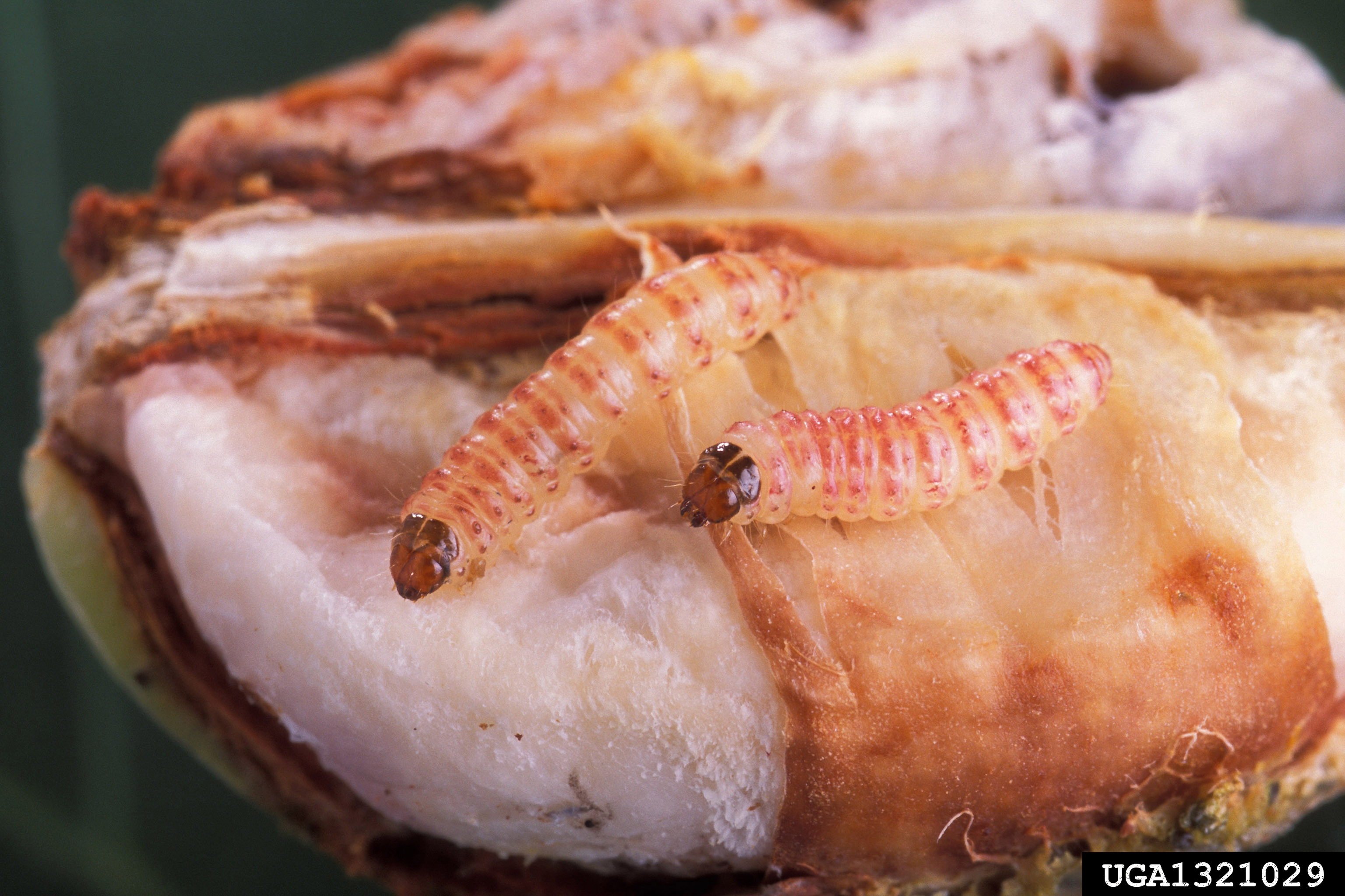 Pectinophora gossypiella